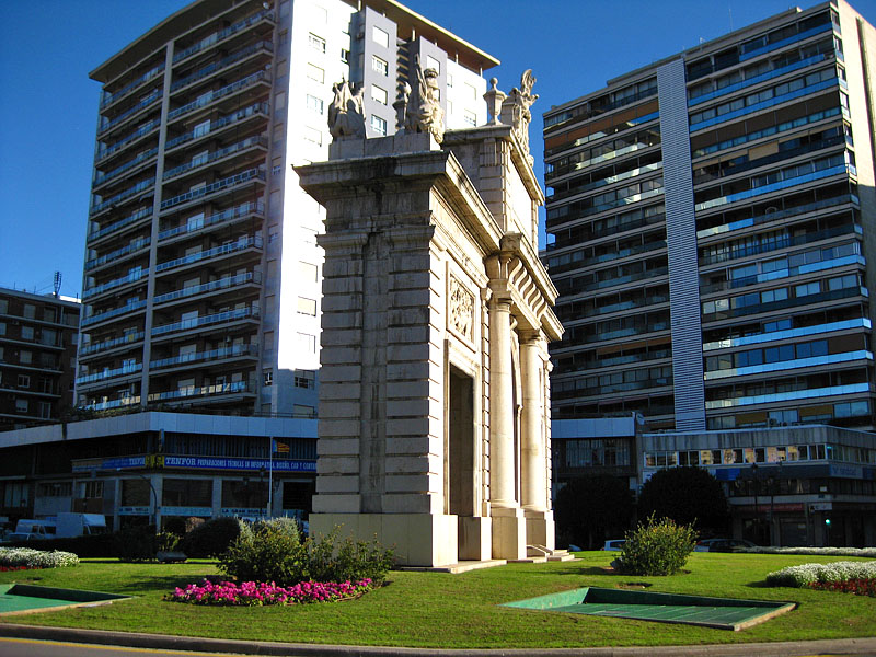 Plaça de la Porta de la Mar, Valencia, Spain